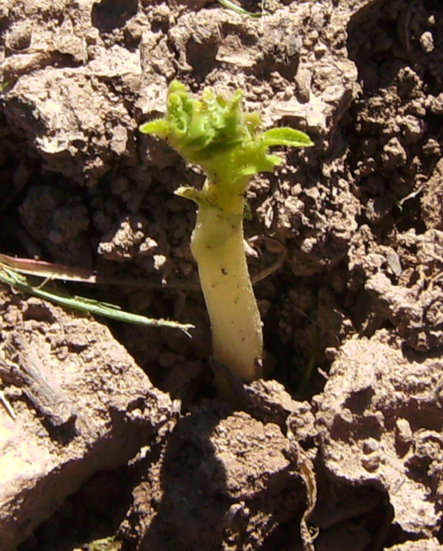 A chickpea at the beginin of the germination, Castelltallat Catalonia